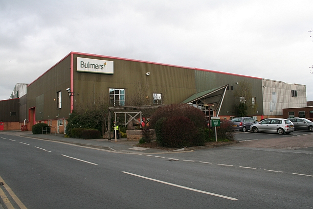 Bulmers Cider In Plough Lane in the Moorfields area of the city.